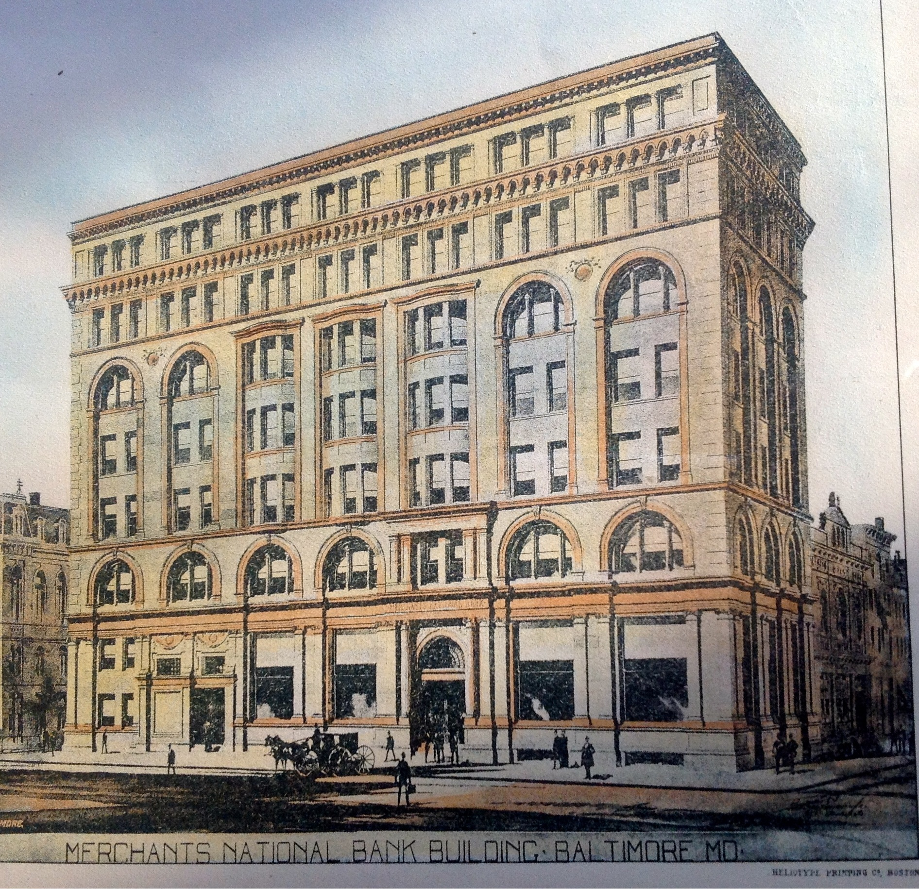 The 1895 Merchants' National Bank Building — a former historic 7 story bank building at 301 Water Street in Downtown Baltimore, Maryland. After the Great Baltimore Fire of 1904 it became a 2 story bank building. Now only its facade is remaining, upon a new 17 story building.